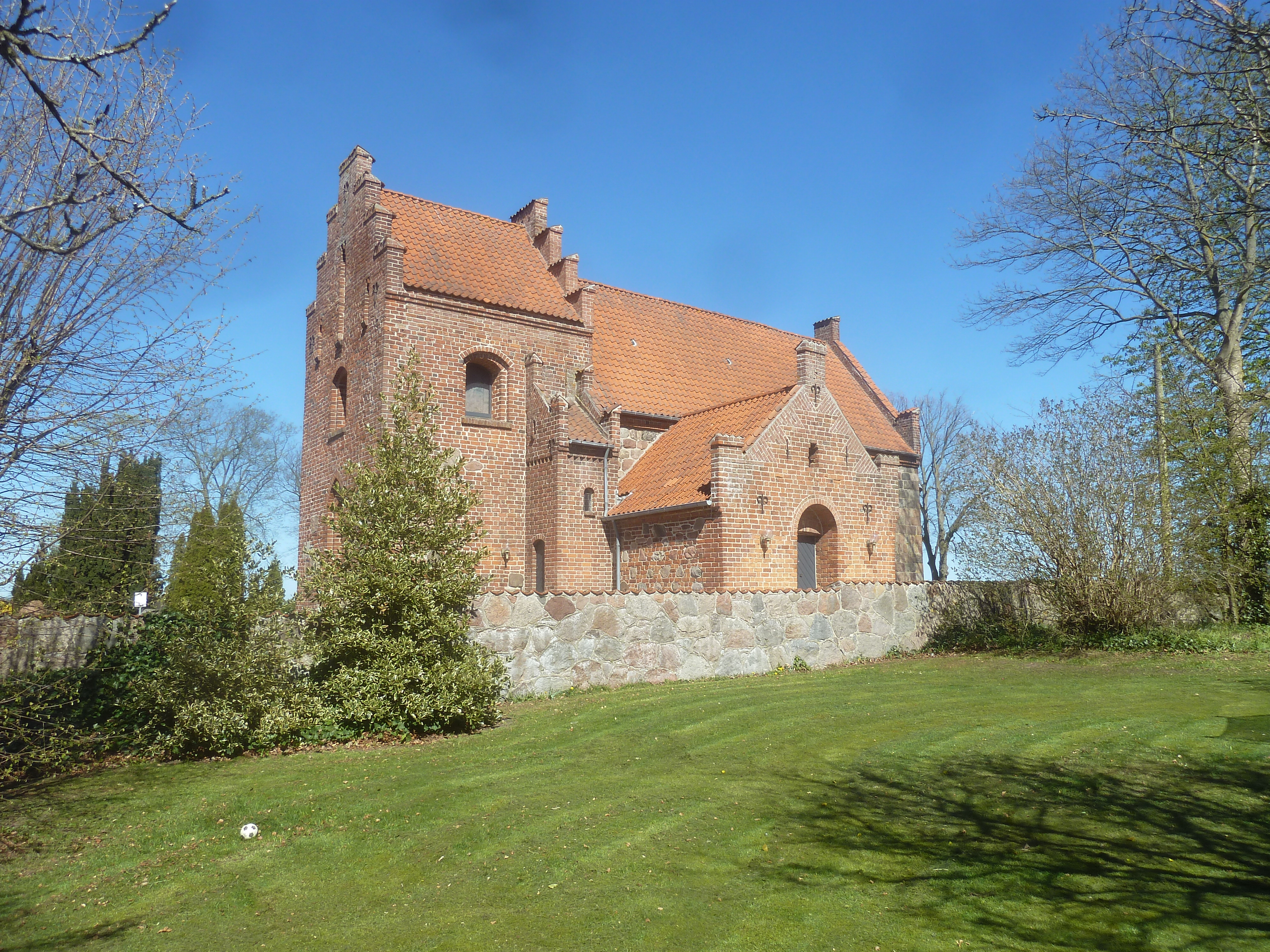 Veksø Kirke, Veksø, Denmark